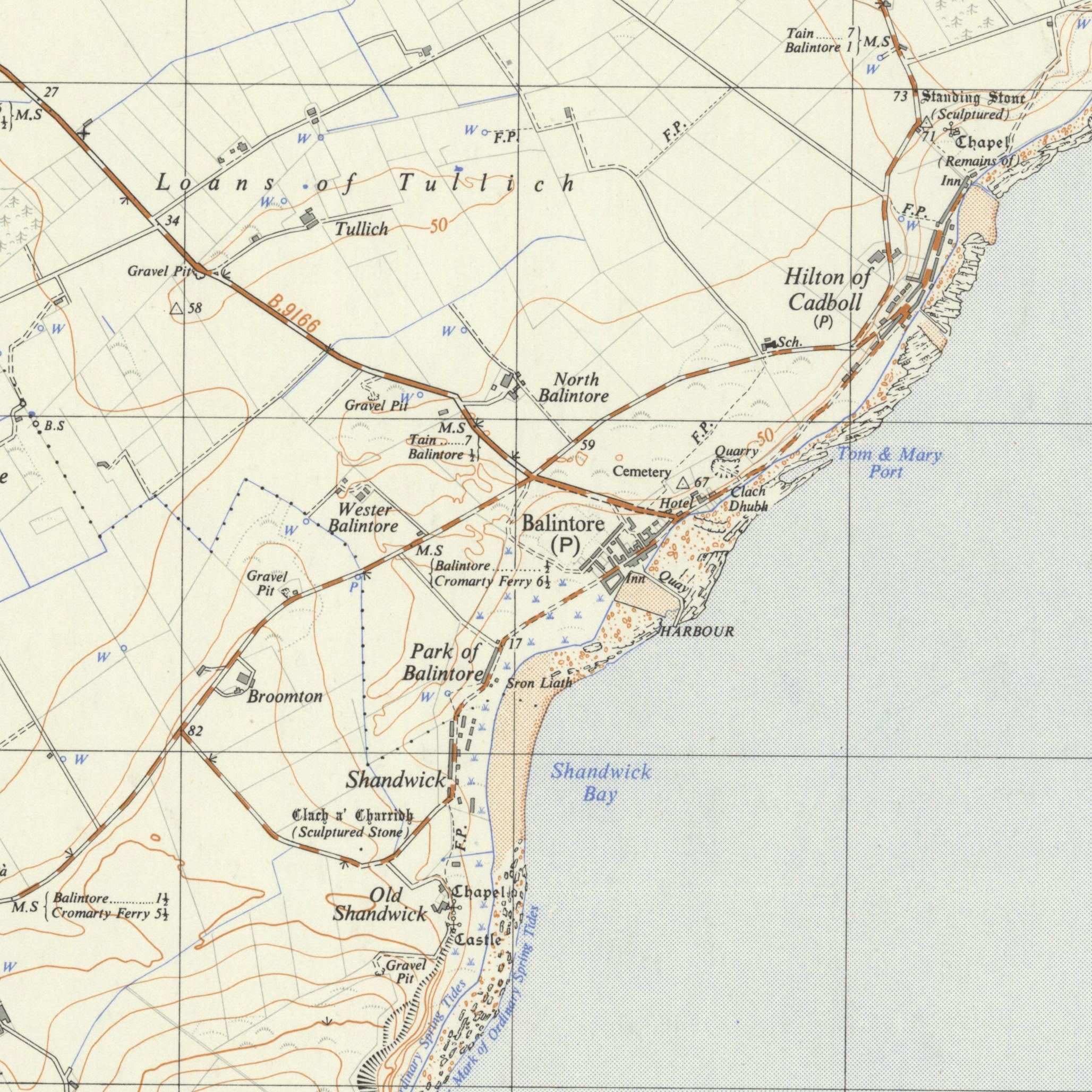 Old Ordnance Surve Map (1950), showing the Seabord Villages on Tarbat Peninsula, Easter Ross, Scotland. Map includes the Villages of Balintore, Hilton of Cadboll and Shandwick as well as the locations of two Pictish Stones near Shandwick and near Hilton of Cadboll.